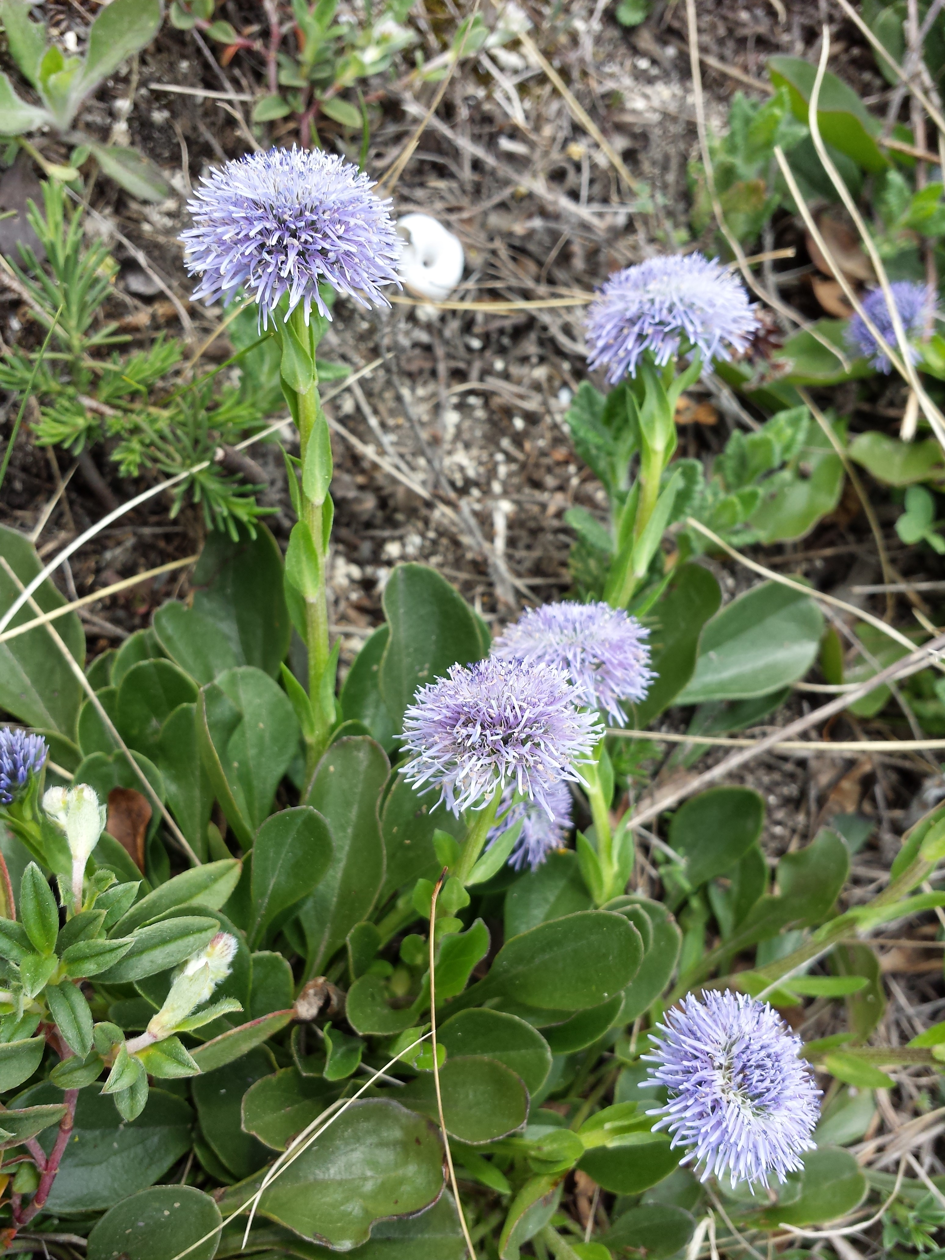 Habitus Taxon: Globularia bisnagarica (sensu Fischer et al. EfÖLS 2008 ISBN 978-3-85474-187-9; det. M. A. Fischer 2014-04-05) Location: Windener Kirchberg, Winden am See, district Neusiedl am See, Burgenland, Austria - ca. 160 m a.s.l. Habitat: dry grassland